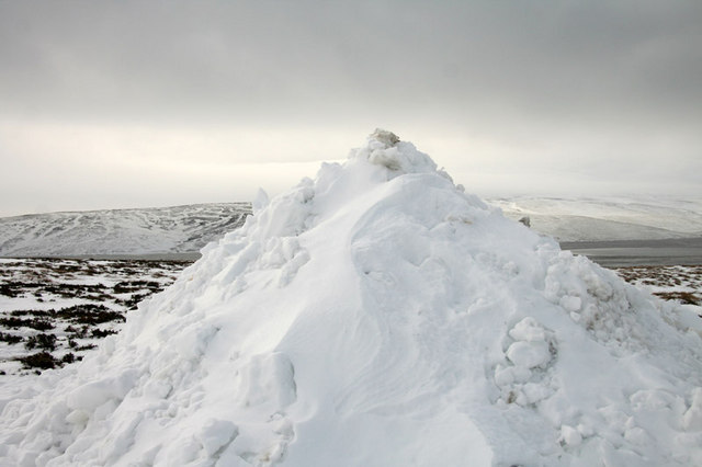 Pile of snow A heap of snow cleared from the road to Cow Green Dam.